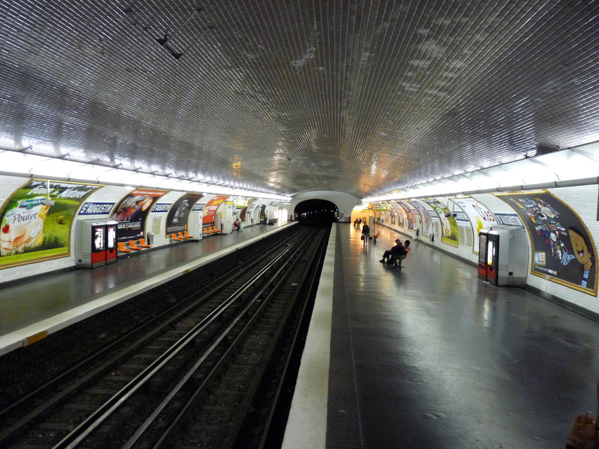 Platforms of the metro station St Augustin (metro line 9) in Paris, looking east